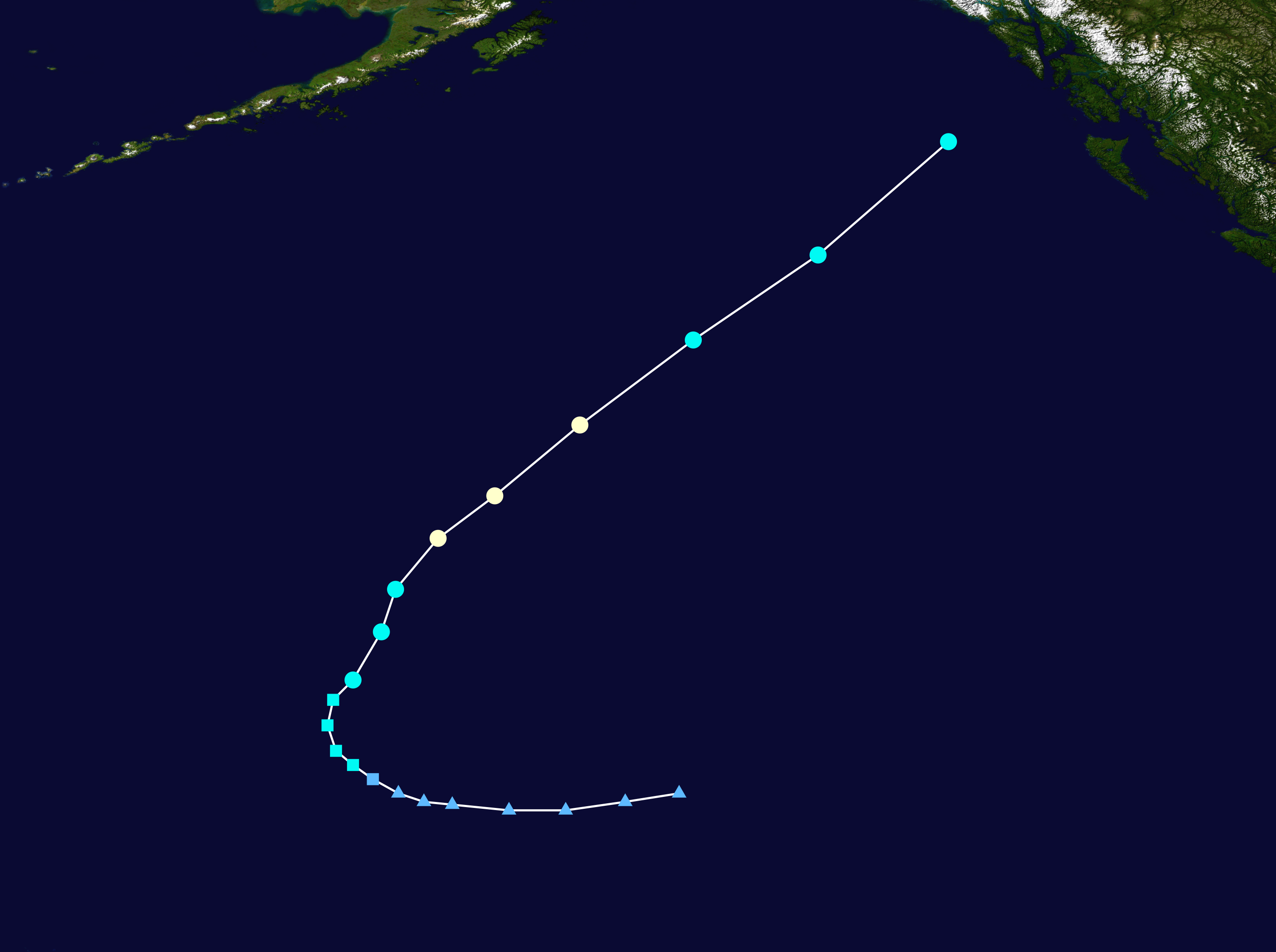 1975 Pacific hurricane 12 track. Uses the color scheme from the Saffir-Simpson Hurricane Scale.